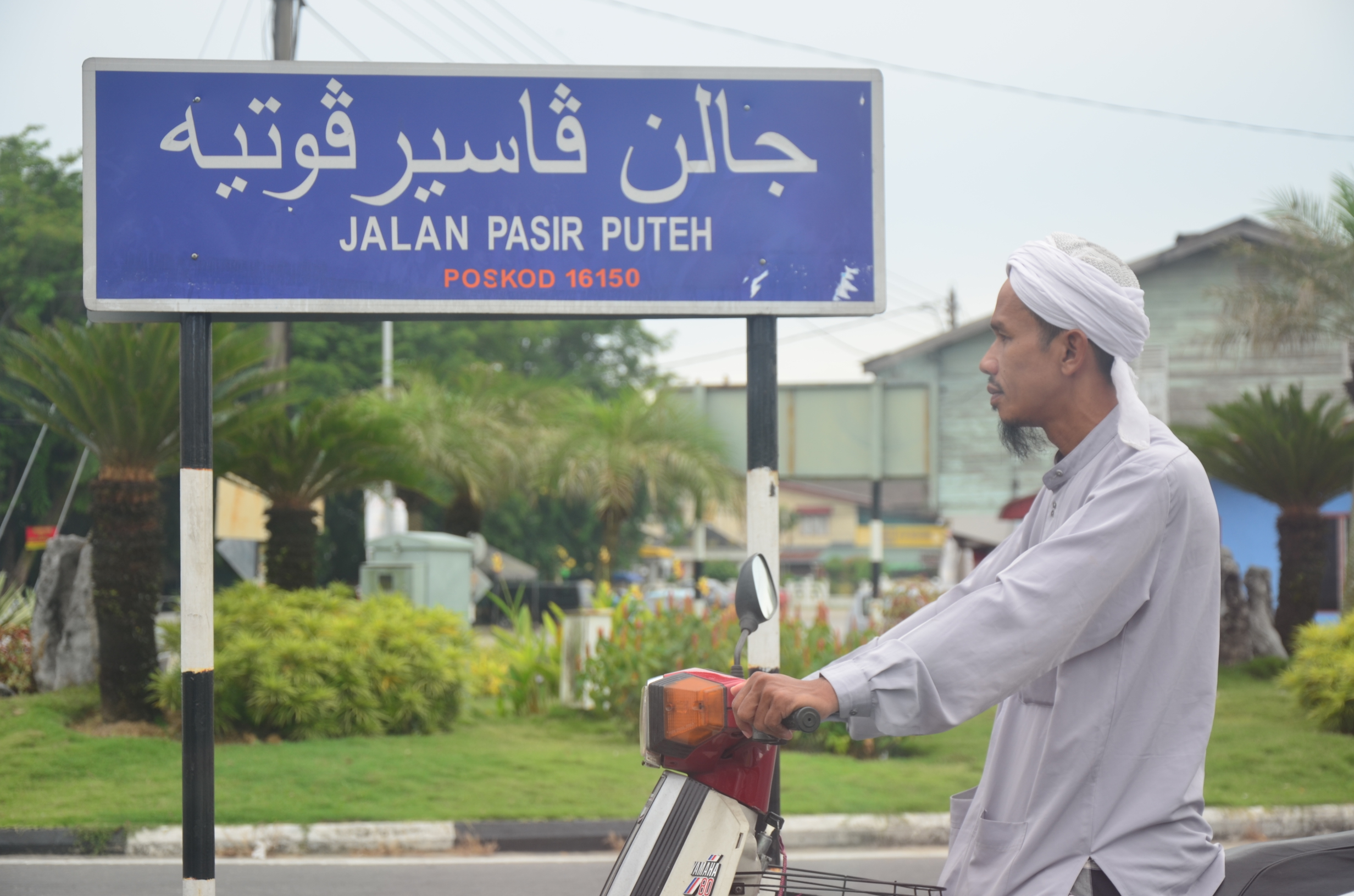 Signboard of a road name written using the Jawi and Roman alphabet in Kubang Kerian, in the Kota Bharu district, in the state of Kelantan, Malaysia. Jalan Pasir Puteh is the start of Malaysia Federal Route 3. The Jawi text reads: جالن ڤاسير ڤوتيه The Roman text reads: Jalan Pasir Puteh. The man is wearing an attire common among the elder Kelantanese Malay Muslim men, which consists of the Baju Melayu Cekak Musang and turban (locally referred to as serban).